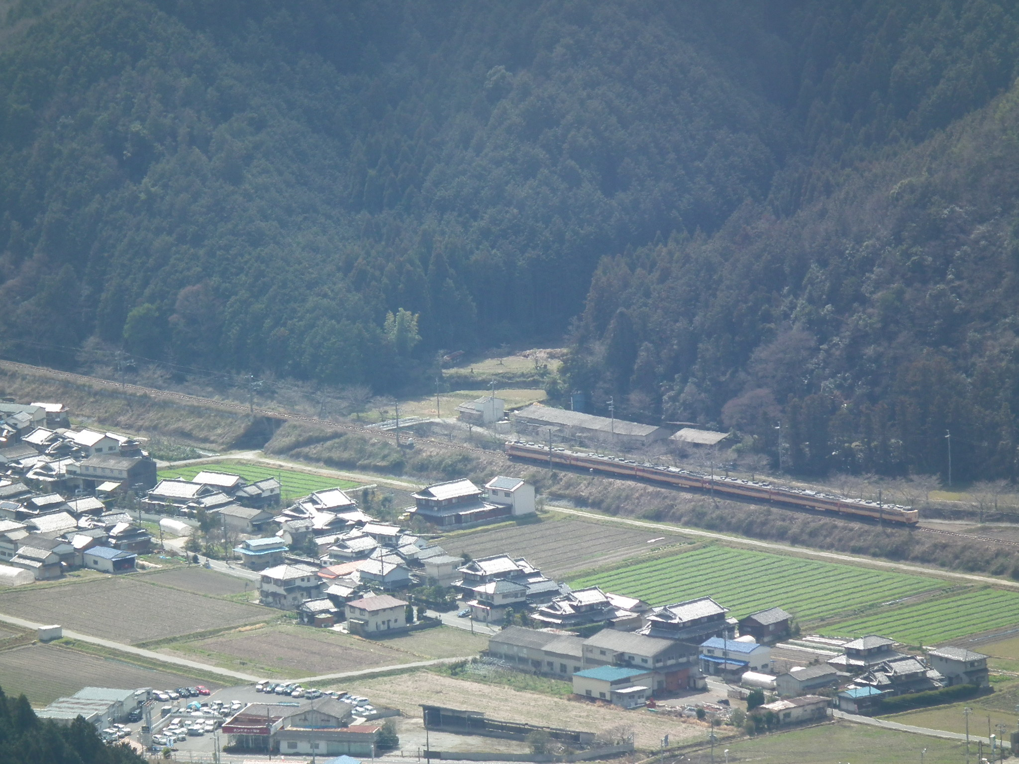 Kaibara-Tanikawa Station aerial photograph